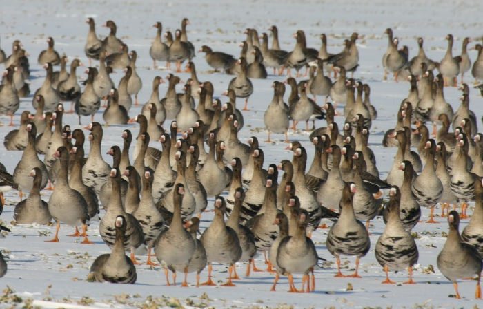 Greater white-fronted goose (Anser albifrons), Lake Neusiedl, Hungary